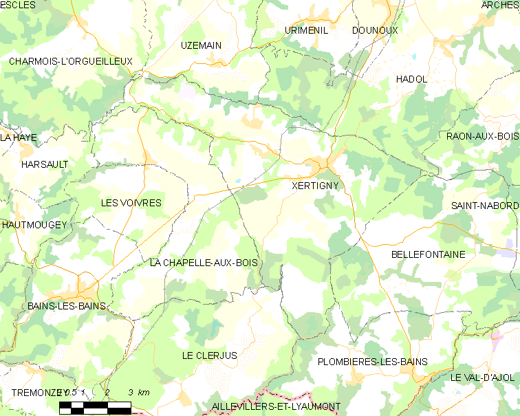 Map of French municipality Xertigny